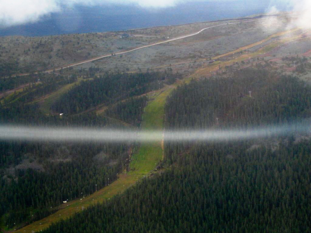 Levi Black pista in an aerial photo taken in the summer of 2004. Kittilä, Finland.